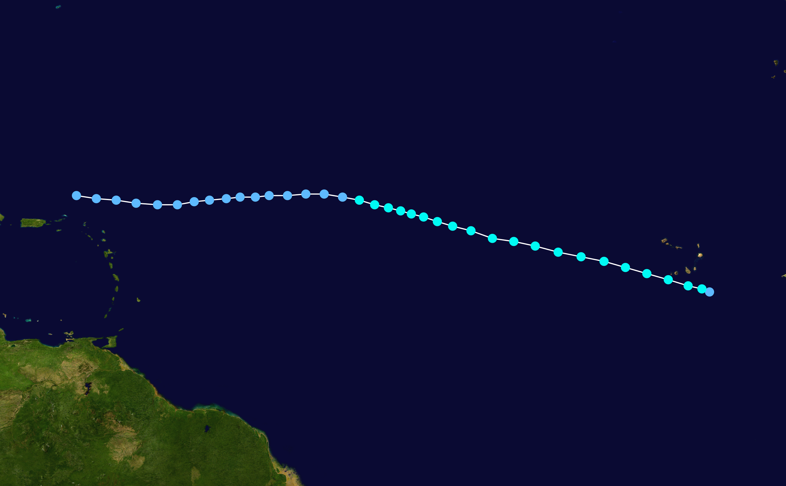 Tropical Storm Beryl (1982) track. Uses the color scheme from the Saffir-Simpson Hurricane Scale.